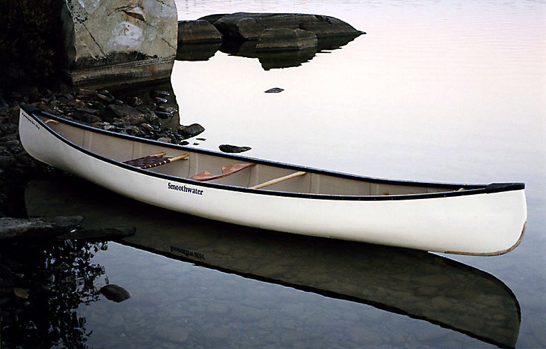 Anima Nipissing Lake - Temagami, Ontario, Canada